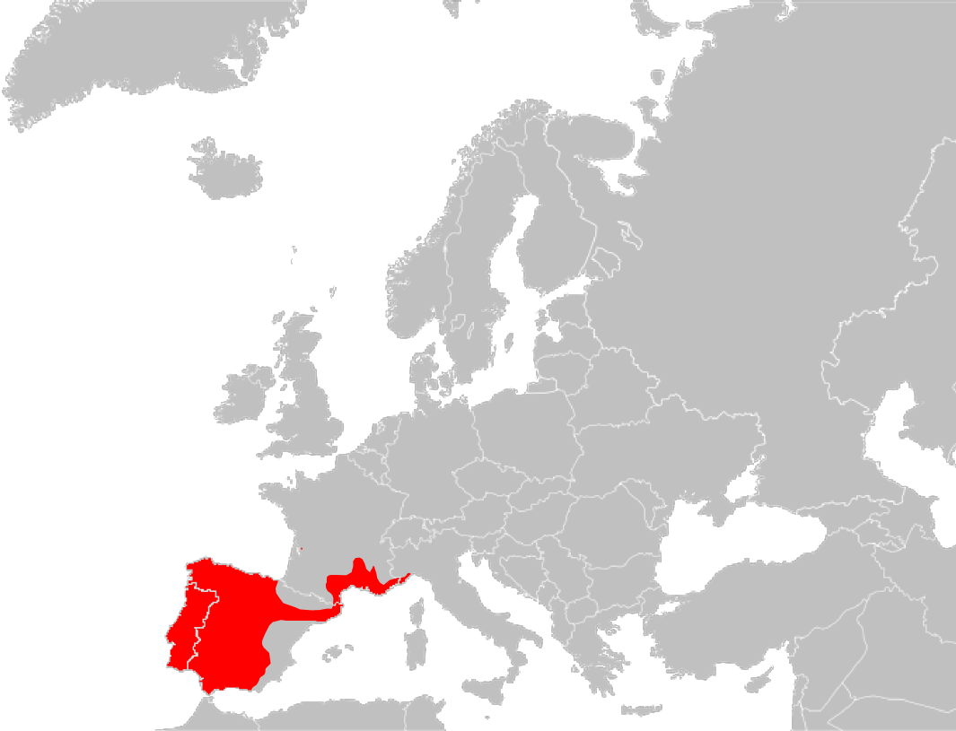 Chalcides striatus distribution map.